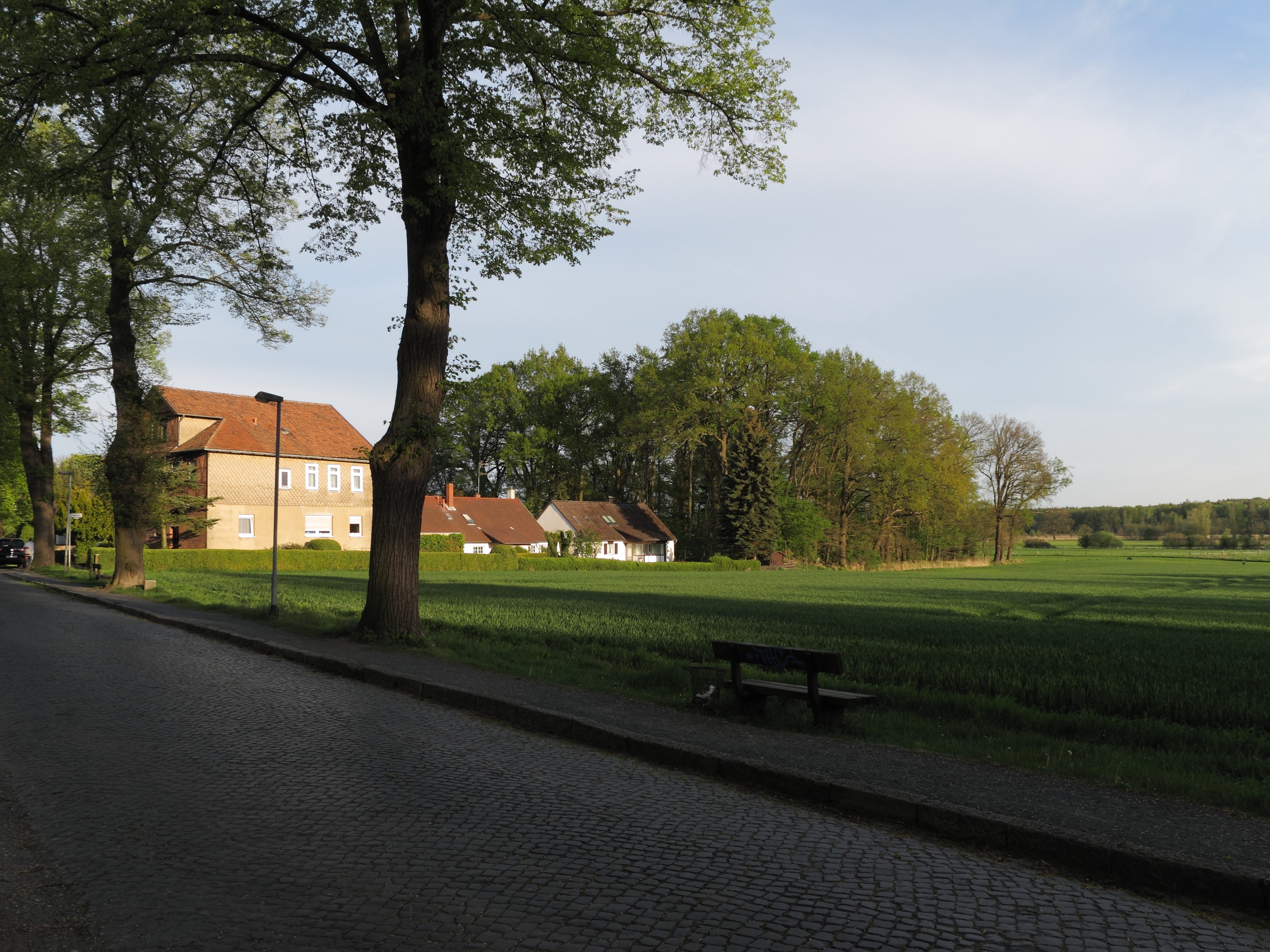 Brunswick Schapen